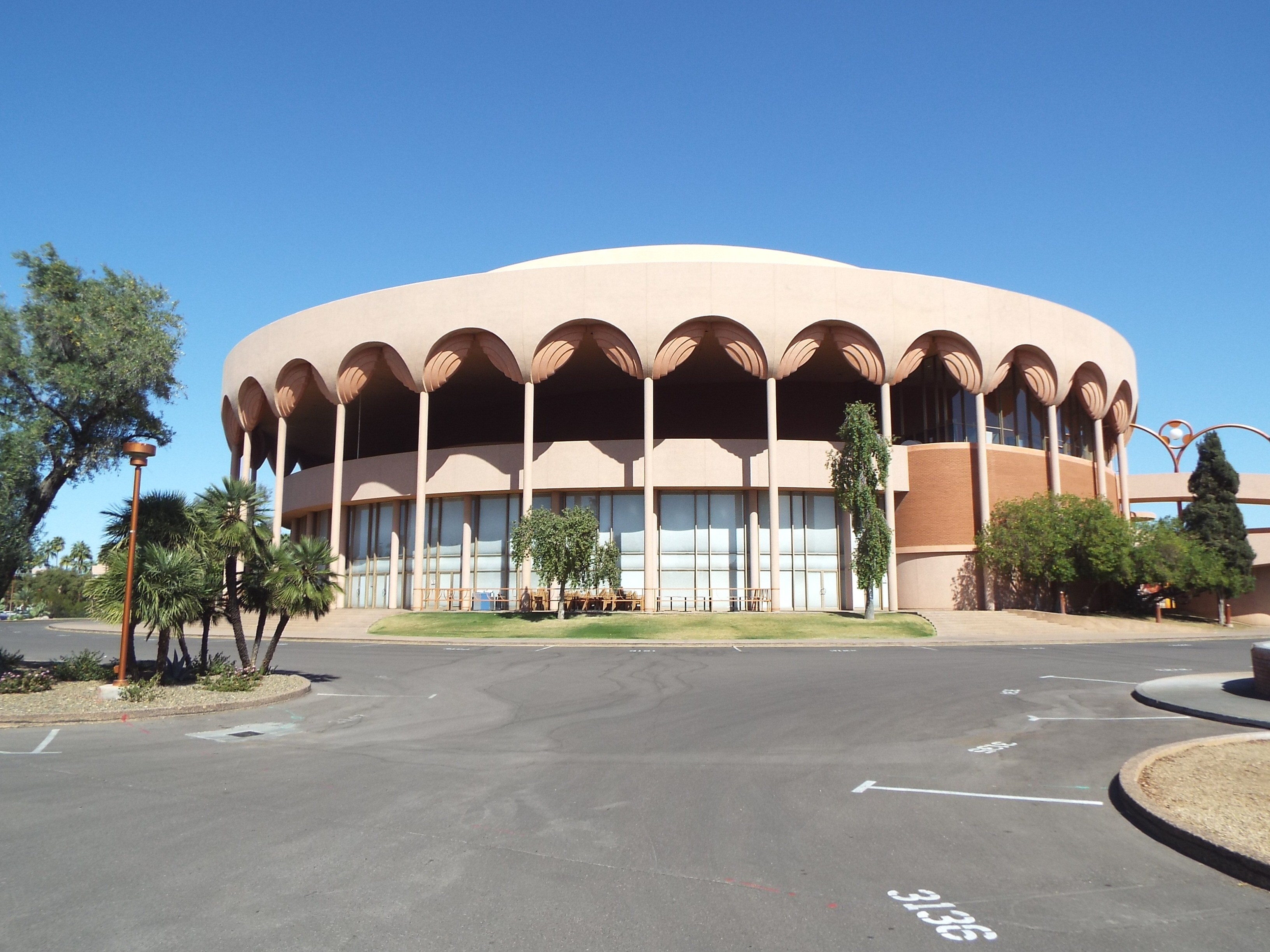 The Grady Gammage Memorial Auditorium was built in 1950 and is located on the Northeastern Corner of Mill and Apache. It is also known as Building #140. It was listed in the National Register of Historic Places in September 11, 1985, reference #85002170.